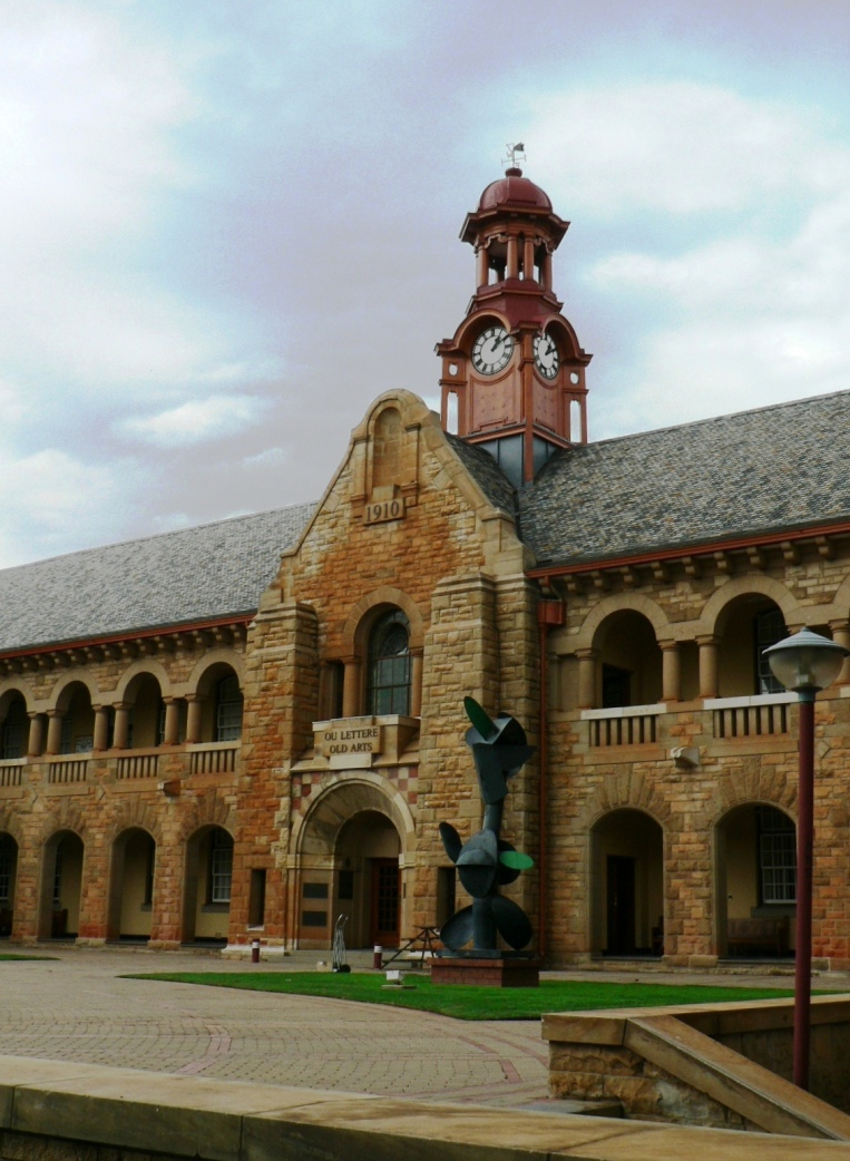 This media shows a South African Protected Site with SAHRA file reference 9/2/258/0001.